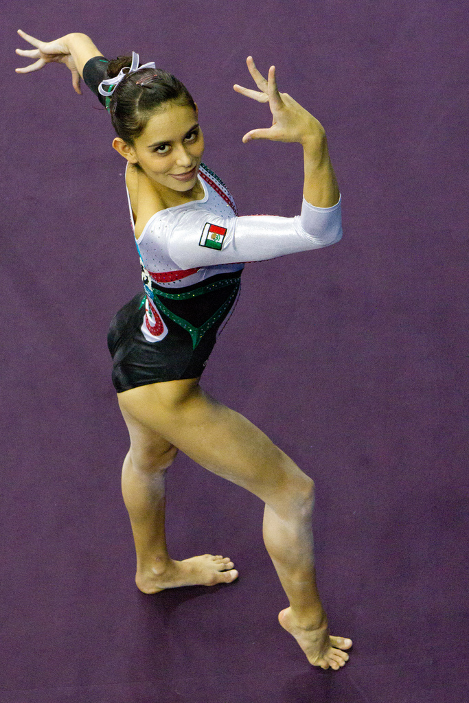 Portrait photograph of 2012 Olympic gymnast Elsa García.